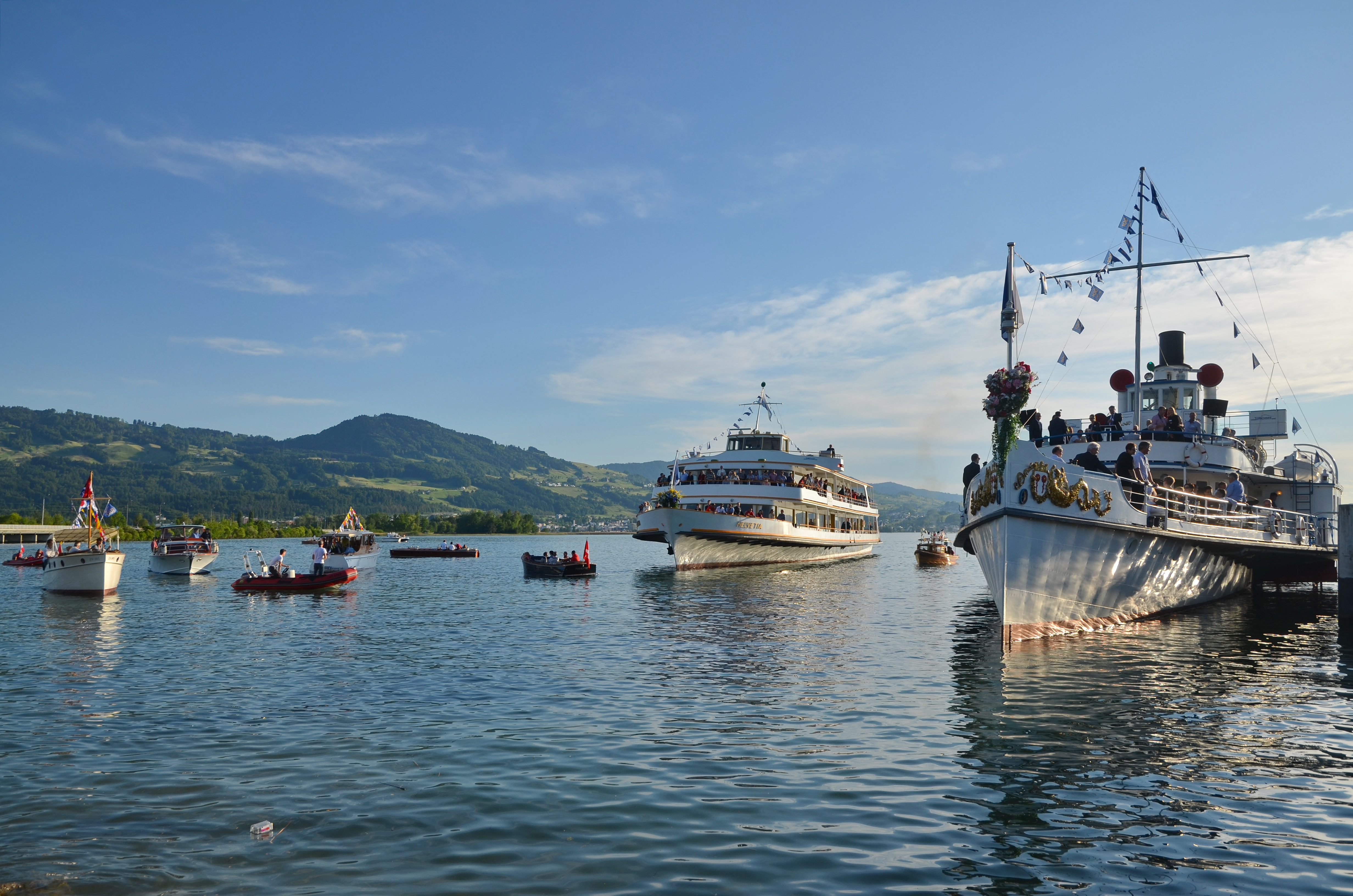 Centennial celebration of Zürichsee-Schifffahrtsgesellschaft (ZSG) paddle steamship Stadt Rapperswil, Rosenempfang at the harbour in Rapperswil (Switzerland)